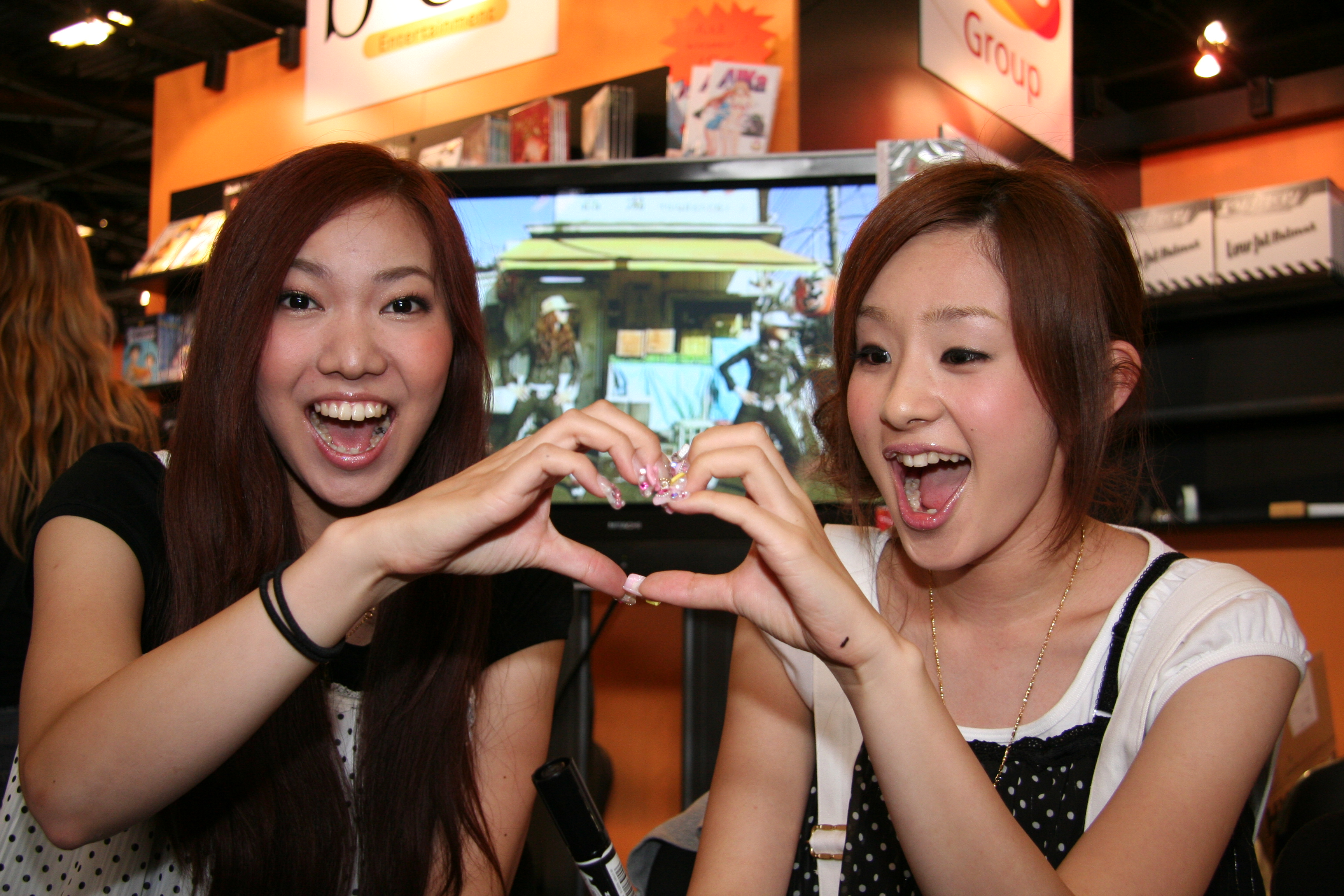 Autograph session with Halcali at Japan Expo 2007 (Paris, France).